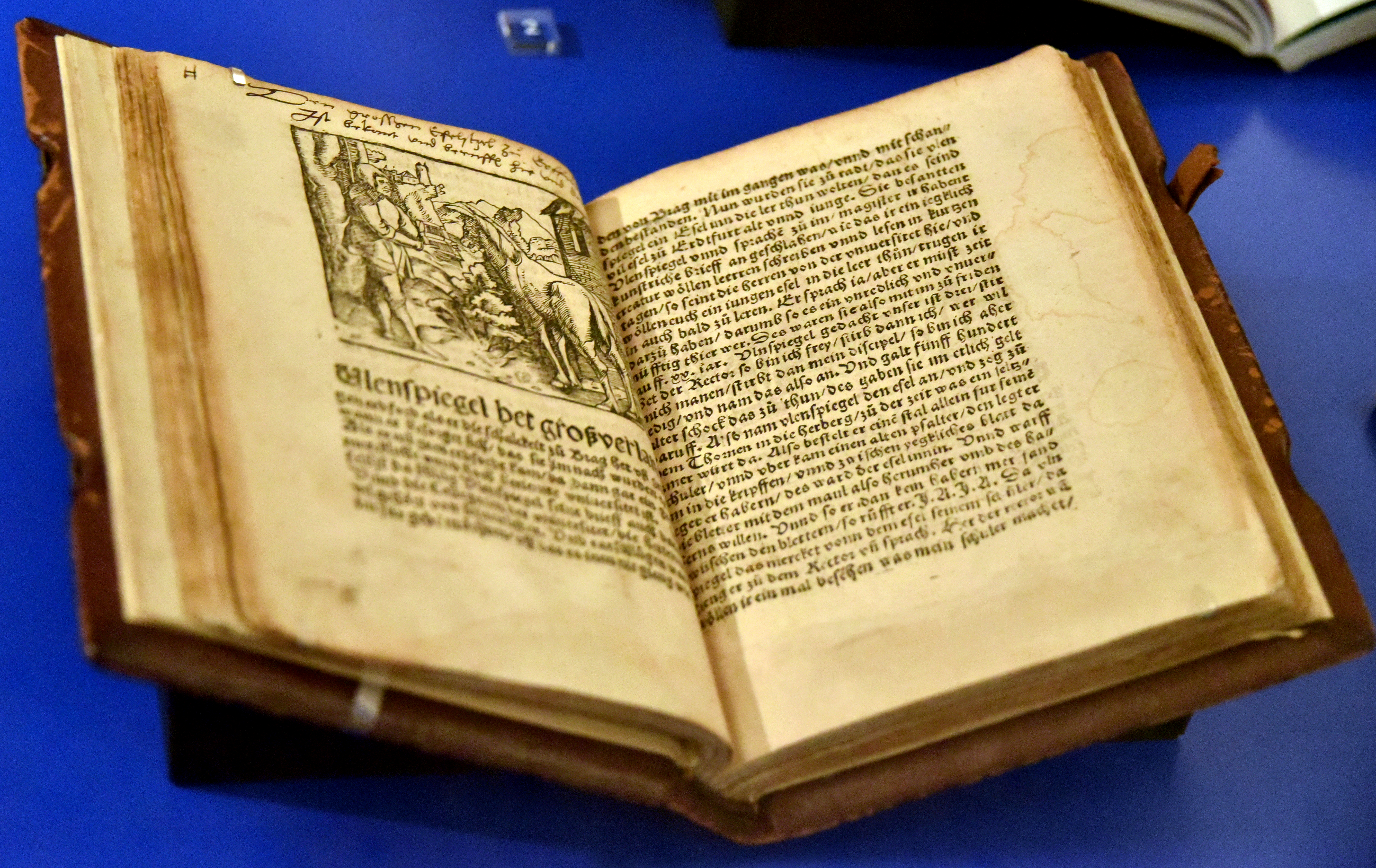 The 1st German edition about the Life of the Wise Fool, Till Eulenspiegel [Von vlenspiegel Eins bauren), 1531 CE, Germany. It was displayed at the Neues Museum in Berlin, Germany, Exhibition of "Cinderella, Sindbad & Sinuhe, Arab-German Storytelling Traditions", April 18, 2019, to August 18, 2019. Berlin State Library, Prussian cultural heritage, Orient Department (Staatsbibliothek zu Berlin, Preußischer Kulturbesitz, Abteilung Historische Drucke, Yt 5603).